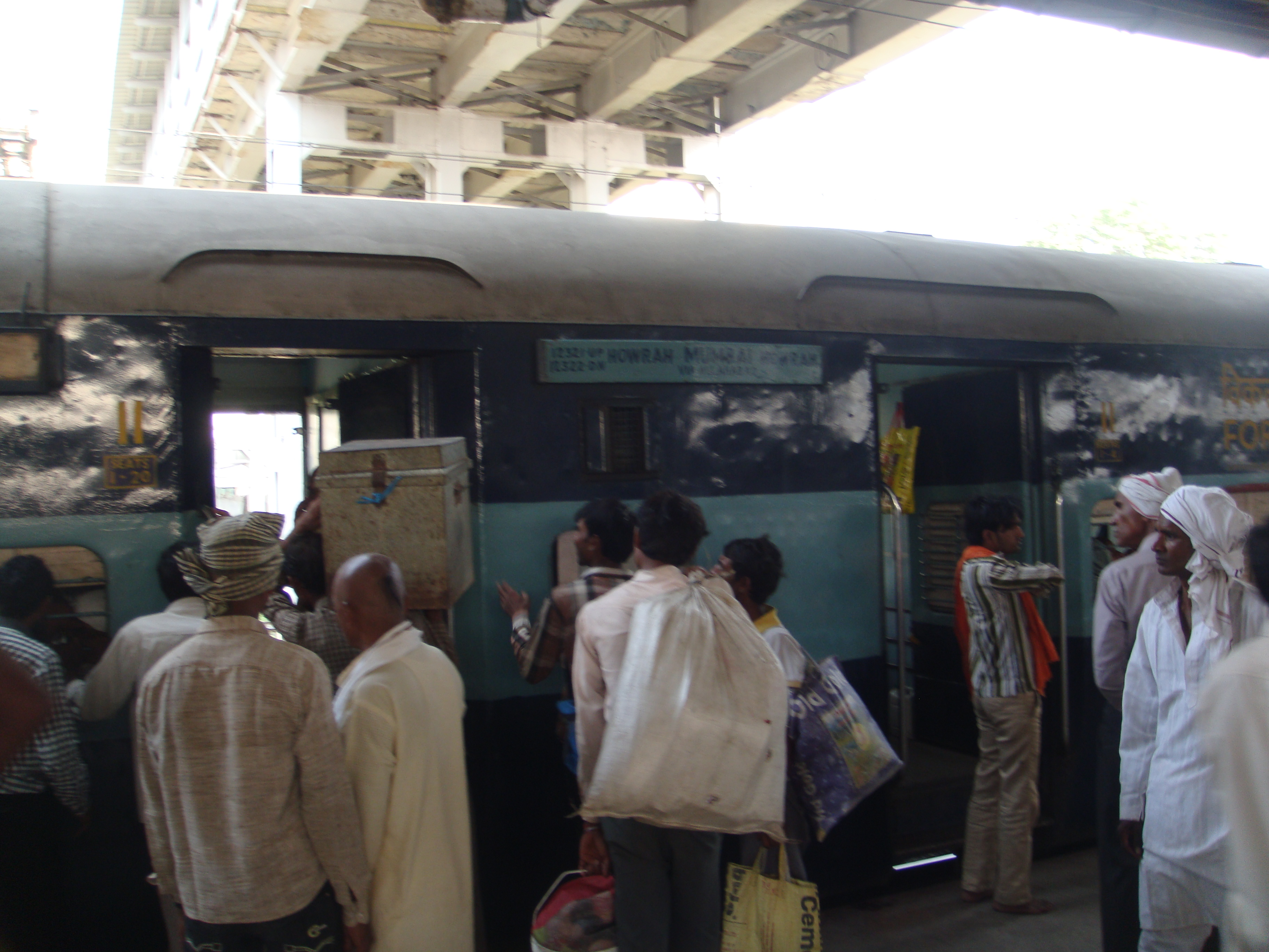 12322 Kolkata Mail at Allahabad